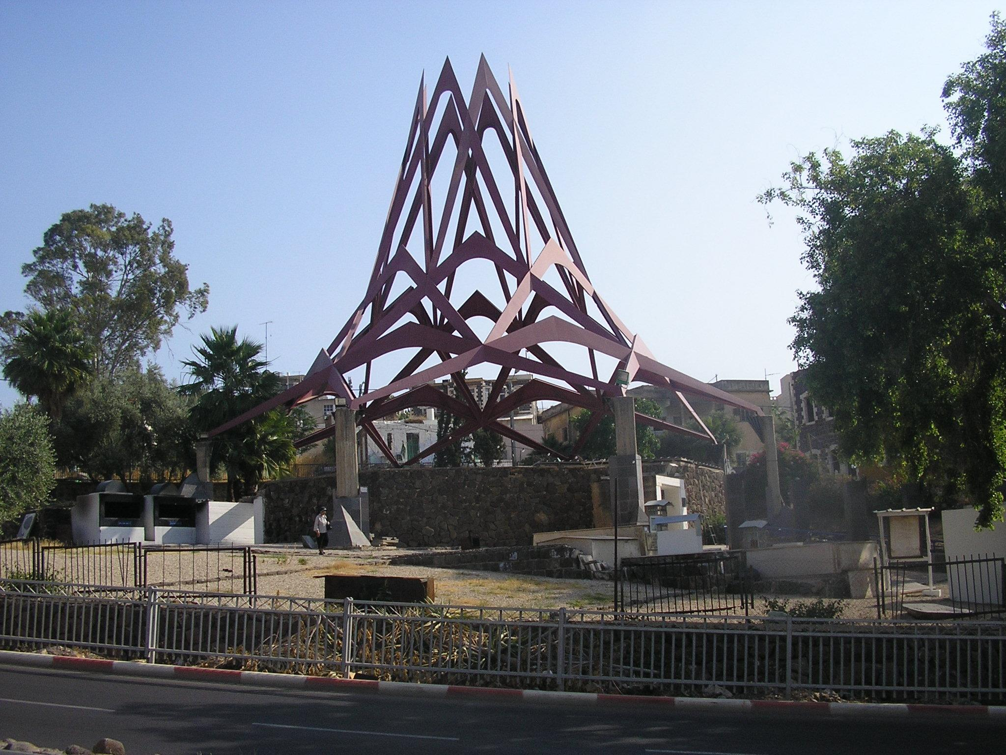 Rambam's (Maimonides) grave compound in Tiberias, Israel.מתחם קבר הרמב"ם בטבריה